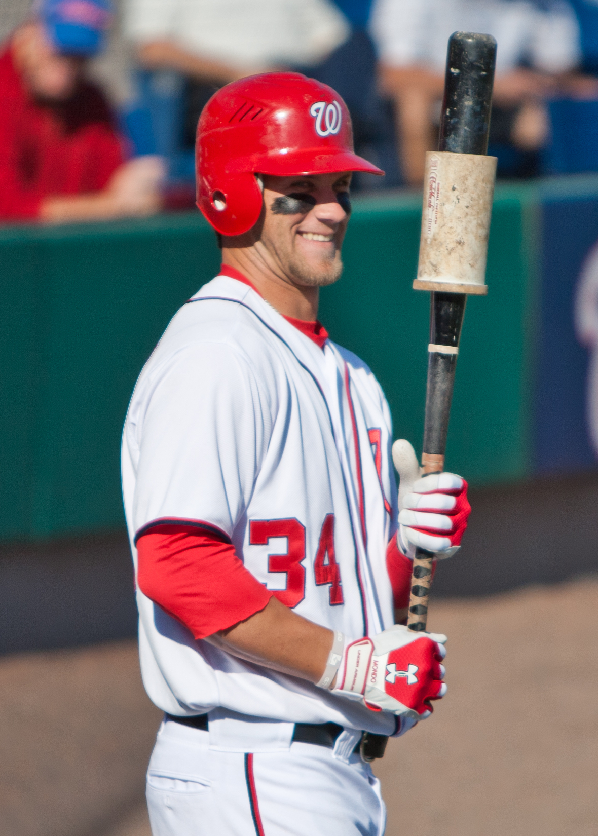 Bryce Harper